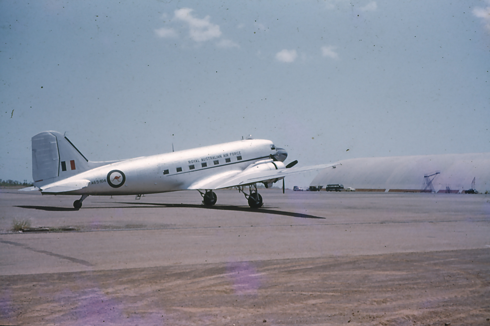 C47 Dakota A65-104 was used to open the new airstrip at RAAF Darwin and to give 5ACS personnel a flight from the strip they had built. This aircraft was destroyed in Cyclone Tracy and part of the tail is behind the Darwin Aviation Museum.